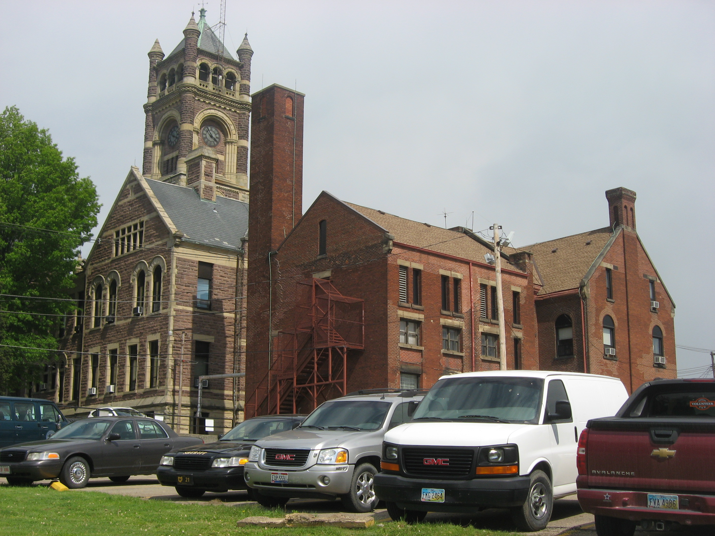 View from the northwest of the Perry County Courthouse and Jail, located on the northern side of Brown Street at the intersection with Main Street (State Routes 13/37) in New Lexington, Ohio, United States. Built in 1887 according to a Joseph W. Yost design, they are together listed on the National Register of Historic Places.